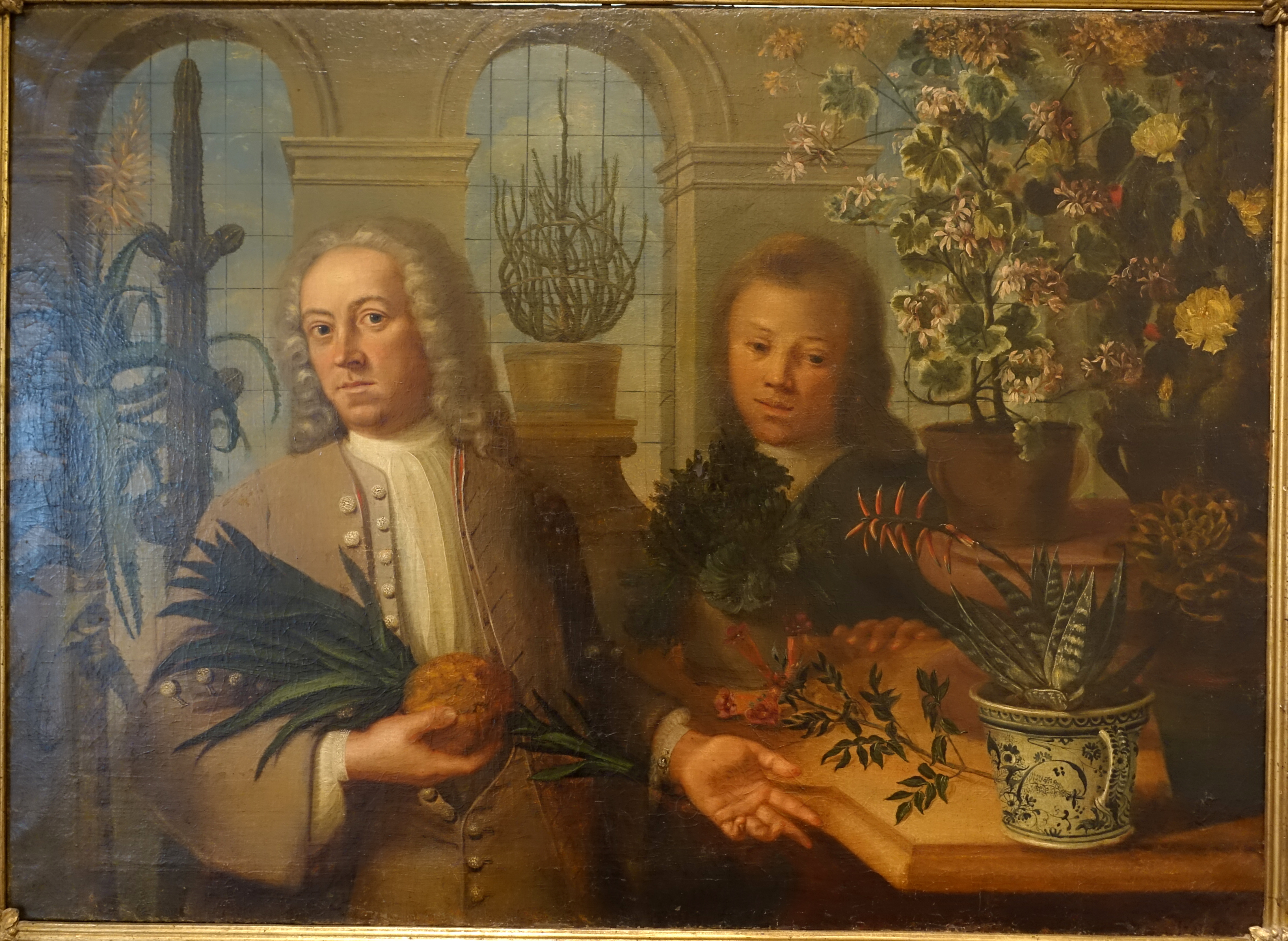 Exhibit in the Mainfränkisches Museum - Würzburg, Germany.